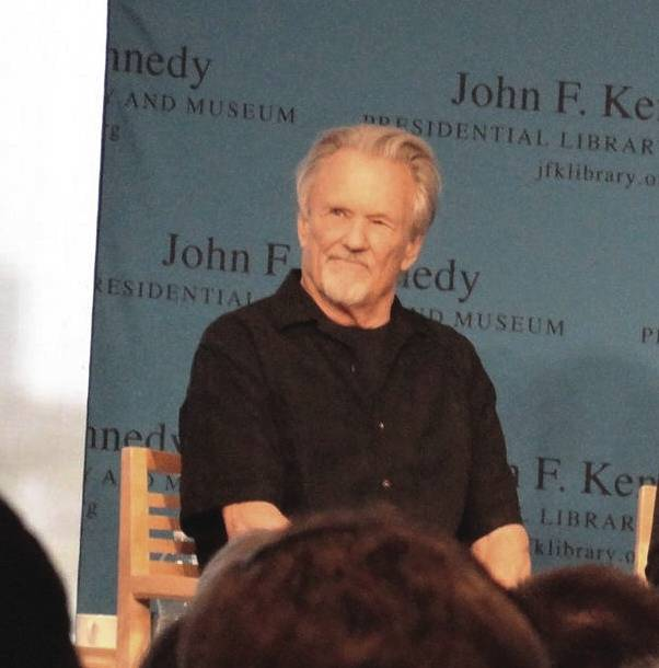 Kris Kristofferson speaks at the PEN New England Song Lyrics Award in Boston's JFK Presidential Library on June 2, 2014